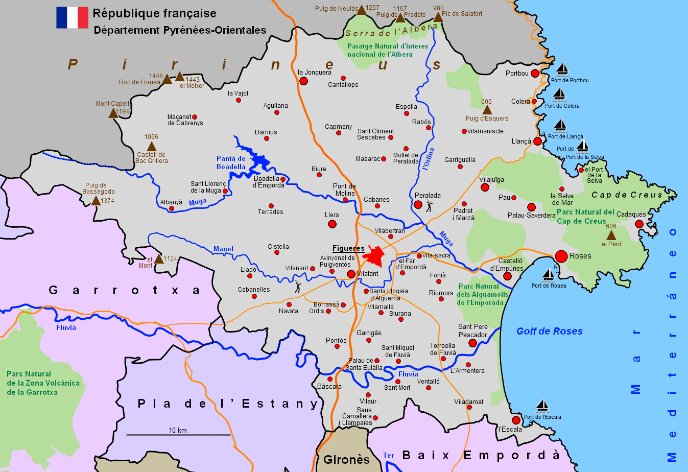 Map of Alt Empordà